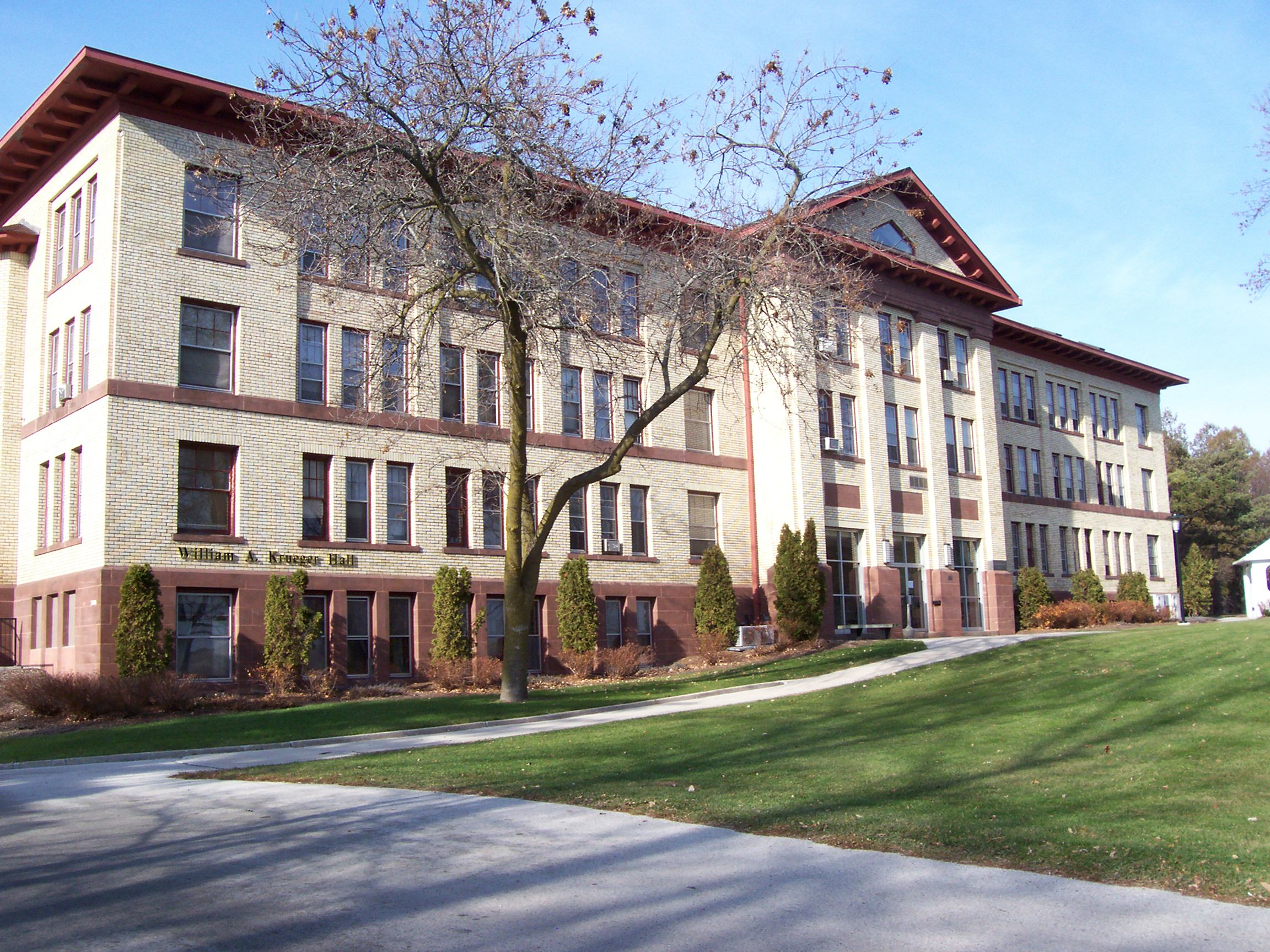 William A. Krueger Hall at Lakeland College in rural Sheboygan County, Wisconsin, USA.